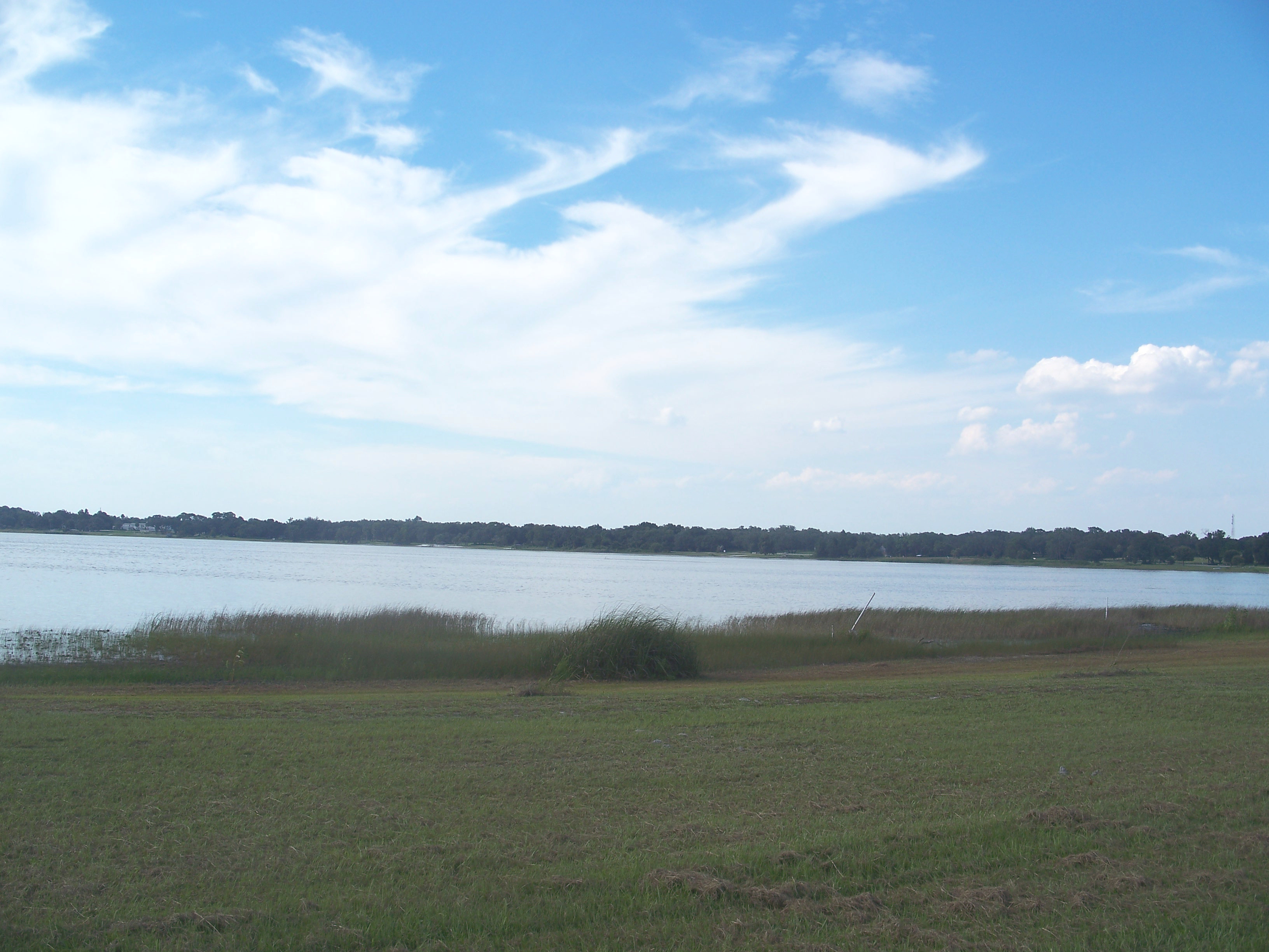 Silver Lake, Florida: Silver Lake, behind the Lake-Sumter Community College campus near Leesburg.